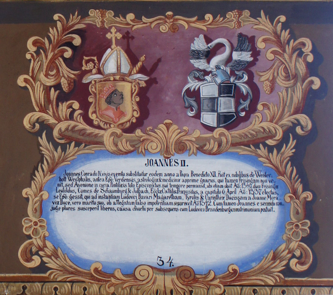 Wappentafel von Johannes II. Hake, Fürstbischof von Freising, im Fürstengang zwischen Fürstbischöflicher Residenz und Freisinger Dom. Links das geistliche, rechts das persönliche Wappen, darunter ein lateinischer Text mit kurzer Biographie.